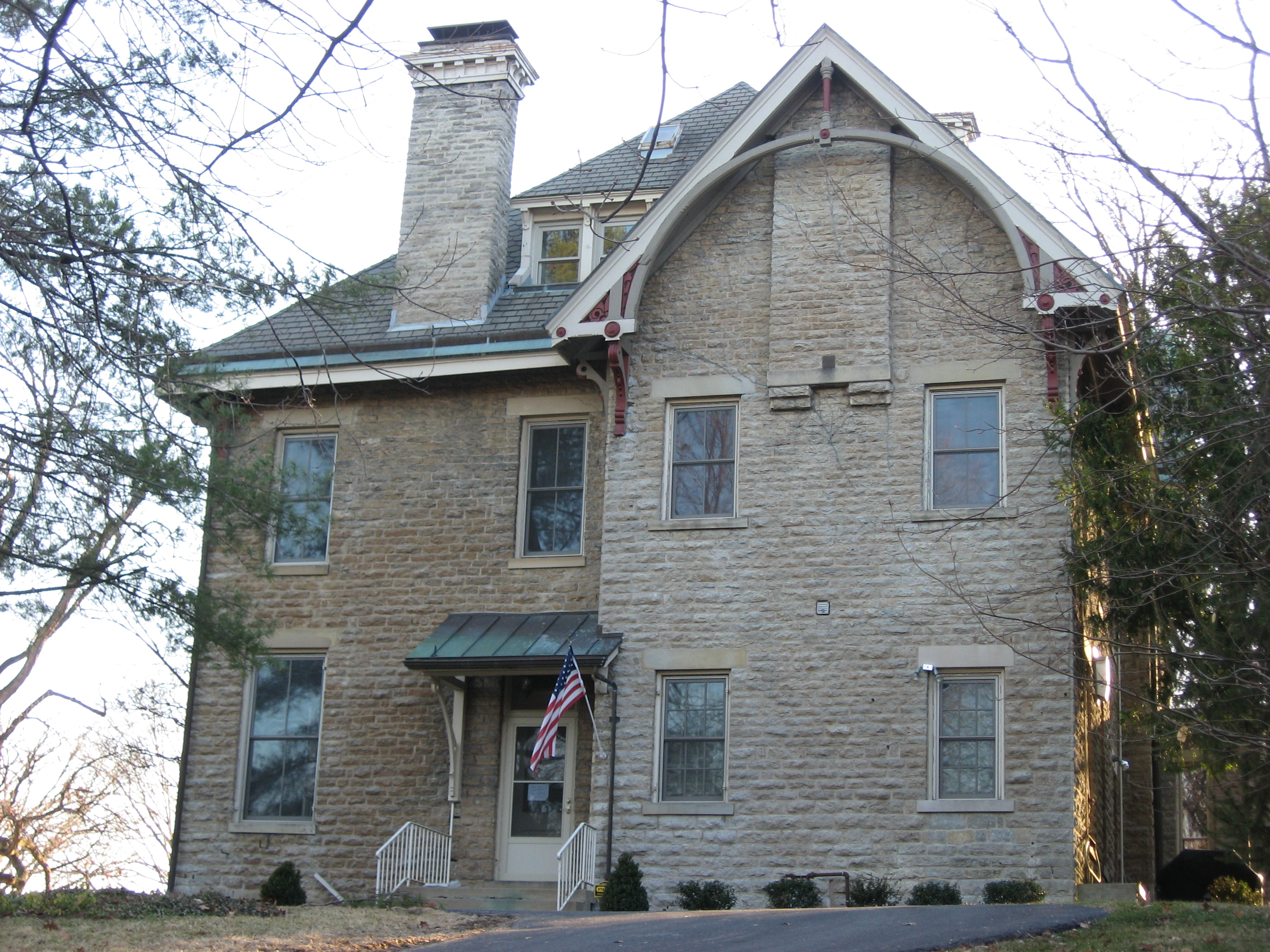 Front of Twin Oaks, the home of Robert Reily, located at 629 Liddle Lane in Wyoming, Ohio, United States. Built in 1854, it is listed on the National Register of Historic Places.